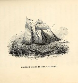 The Dolphin Yacht in Mississippi, USA